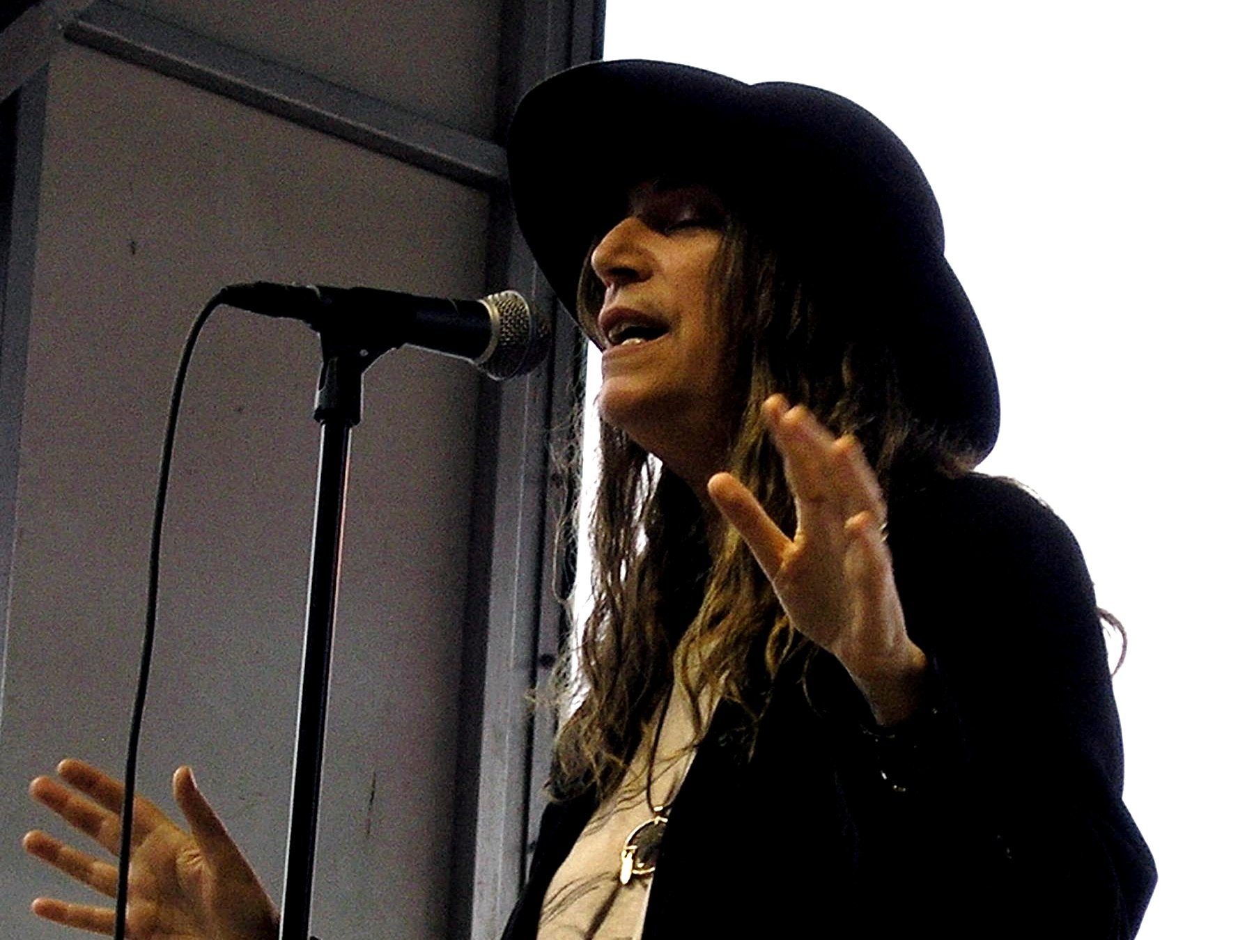 Patti Smith performing at Lollapalooza festival, Grant Park, Chicago, United States.